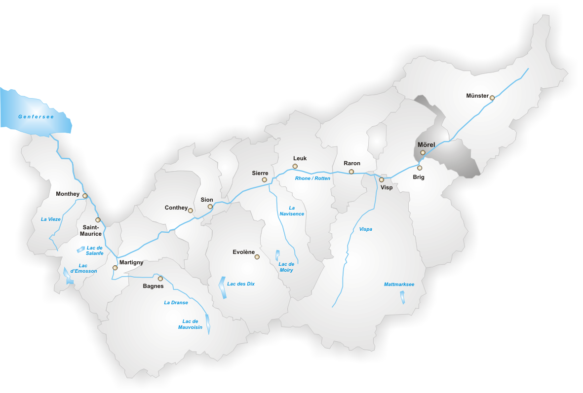 District Östlich Raron